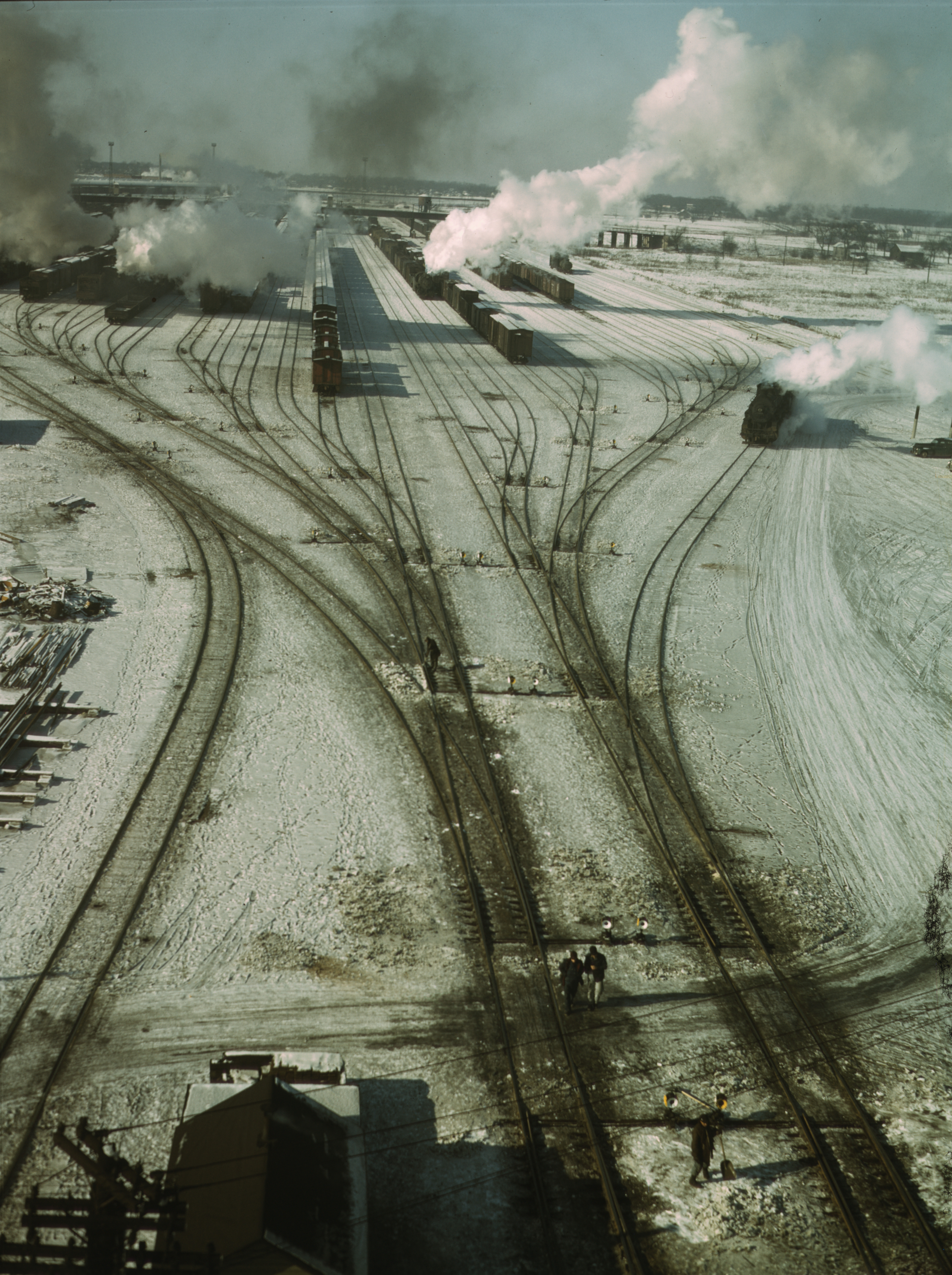 Title: General view of one of the classification yards of the C & NW RR., Chicago, Ill.